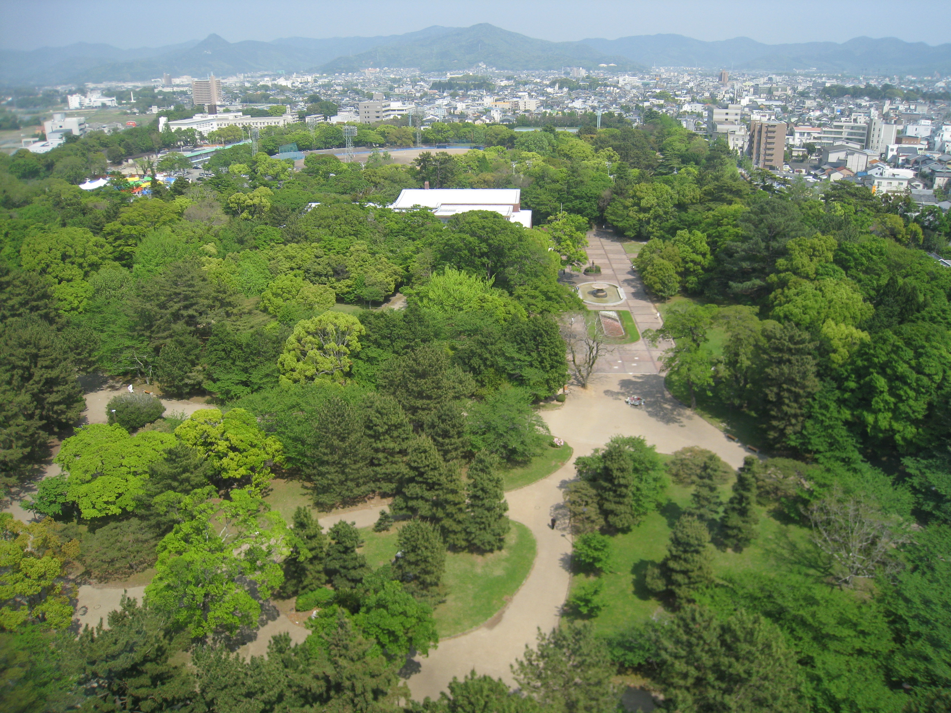 Toyohashi City Athletic Field (豊橋市陸上競技場), located at Imabashicho, Toyohashi, Aichi, Japan